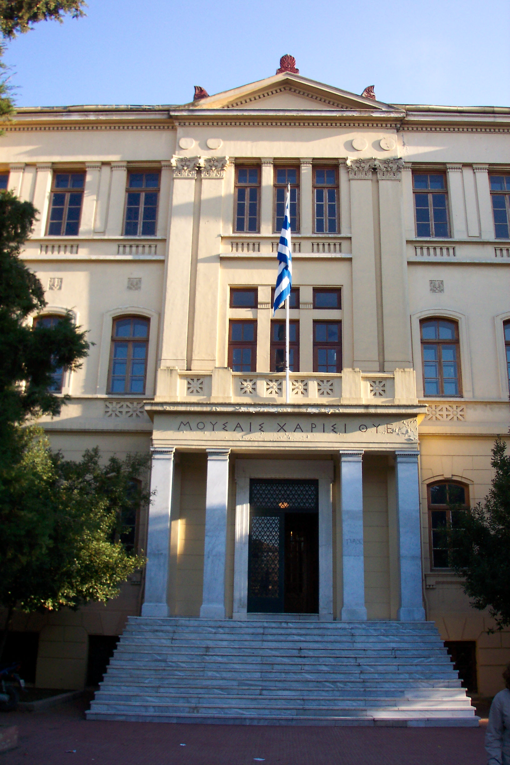 entrance to faculty of philosphy at Aristotle University of Thessaloniki